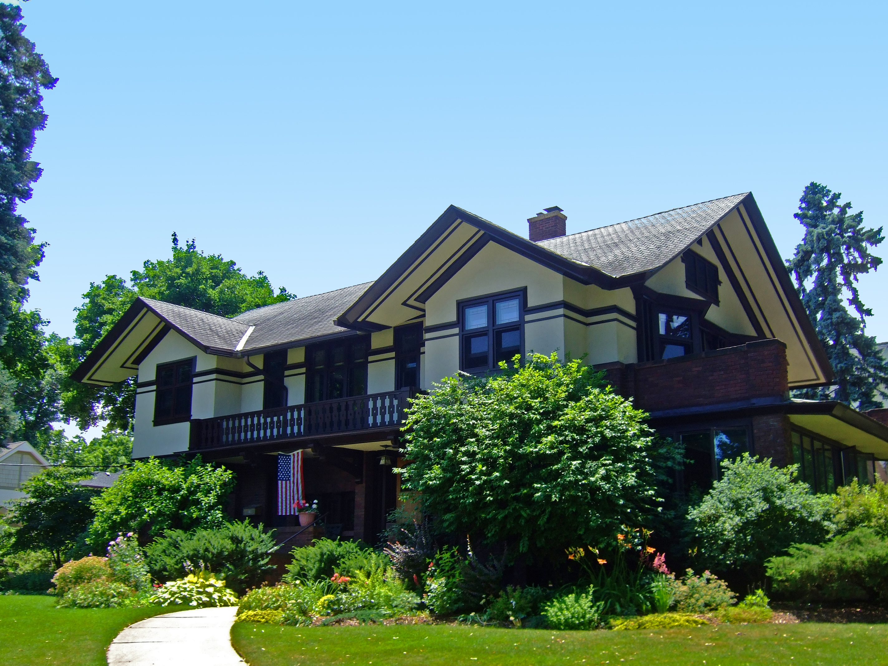 The August C. and Della Larson House (1911) at 1006 Grant Street in Madison, Wisconsin, was designed by Claude and Starck in the Prairie School style. It was added to the National Register of Historic Places in 1994.